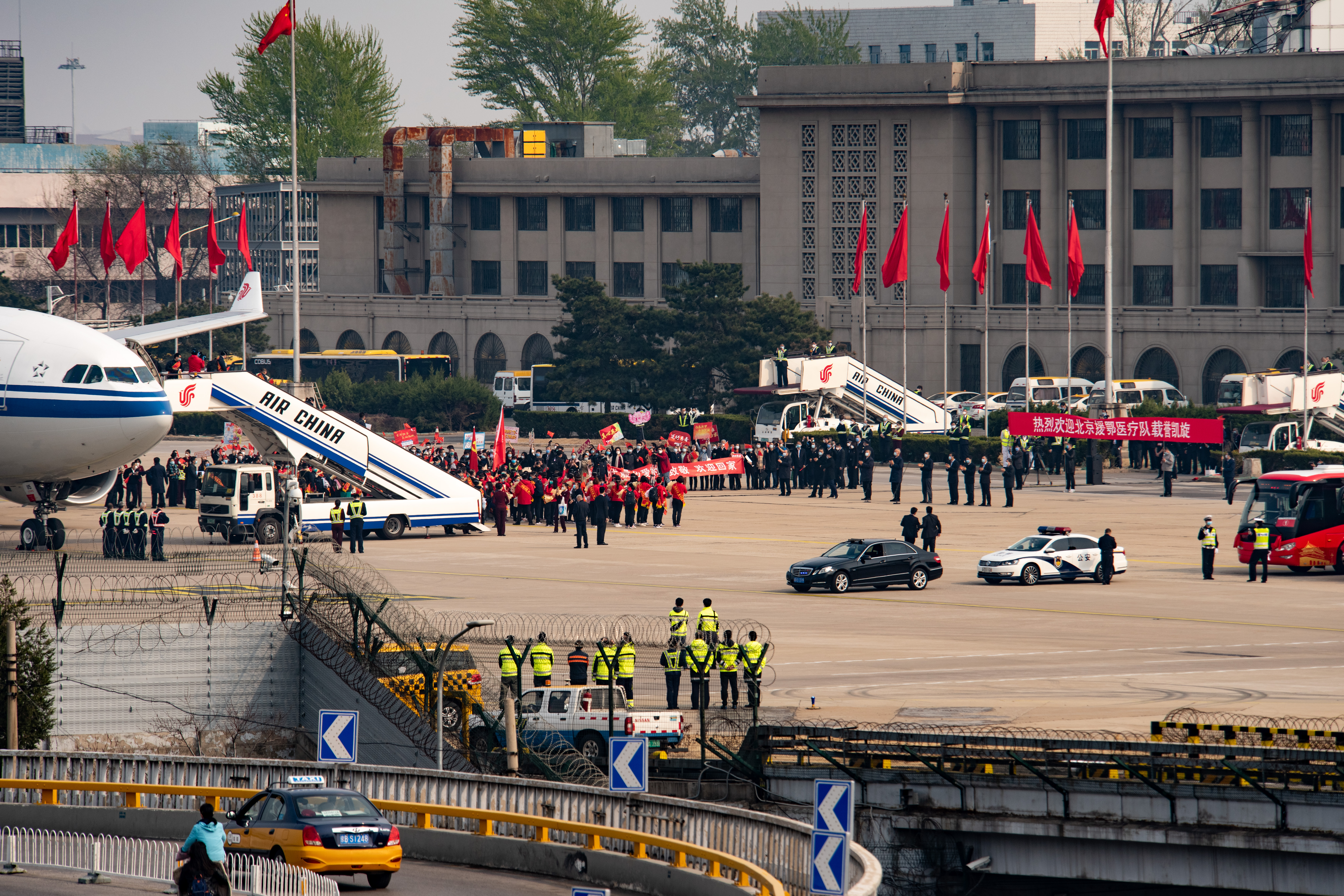 See the conquering hero comes...